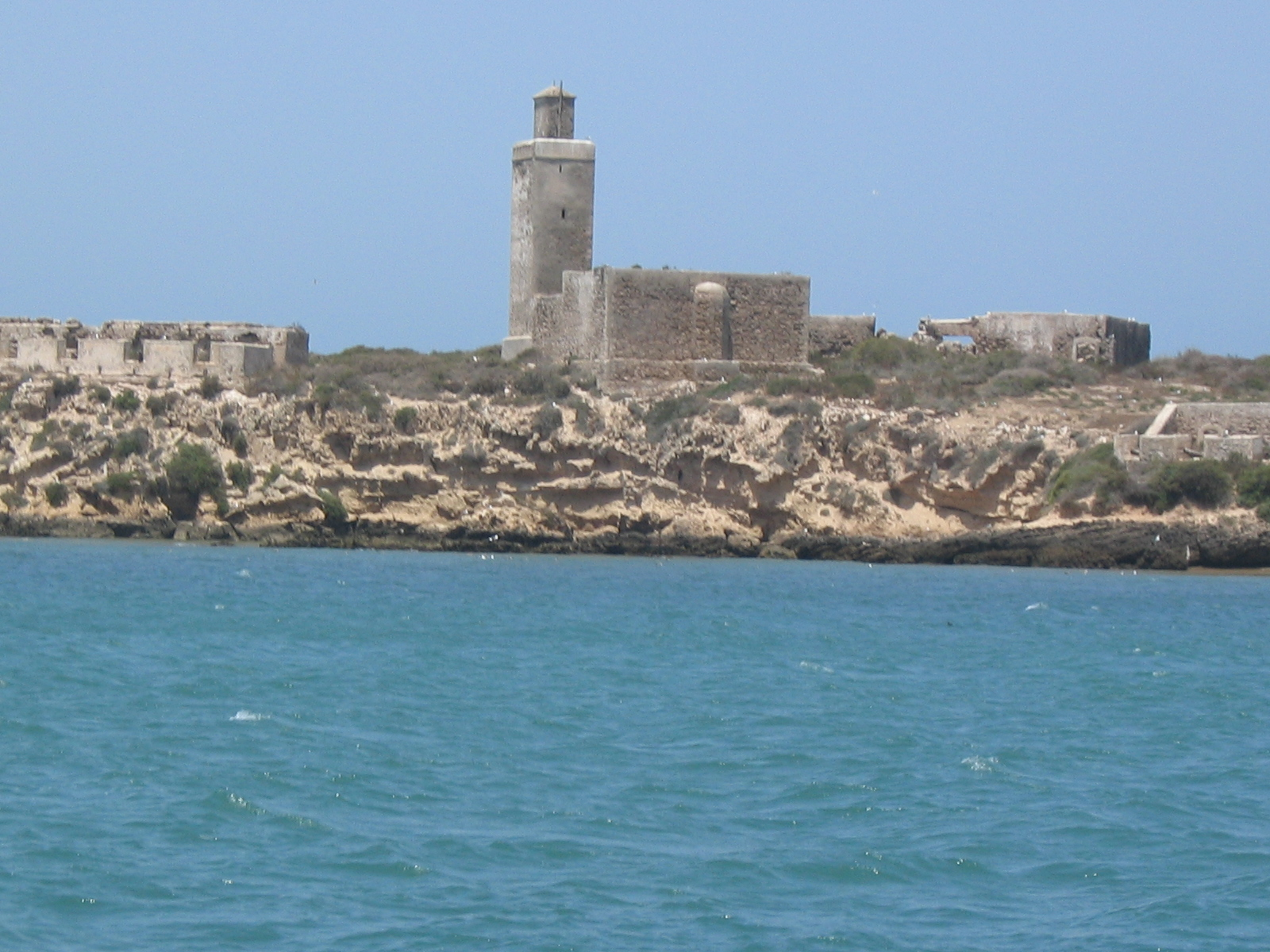 Small island near Essaouira